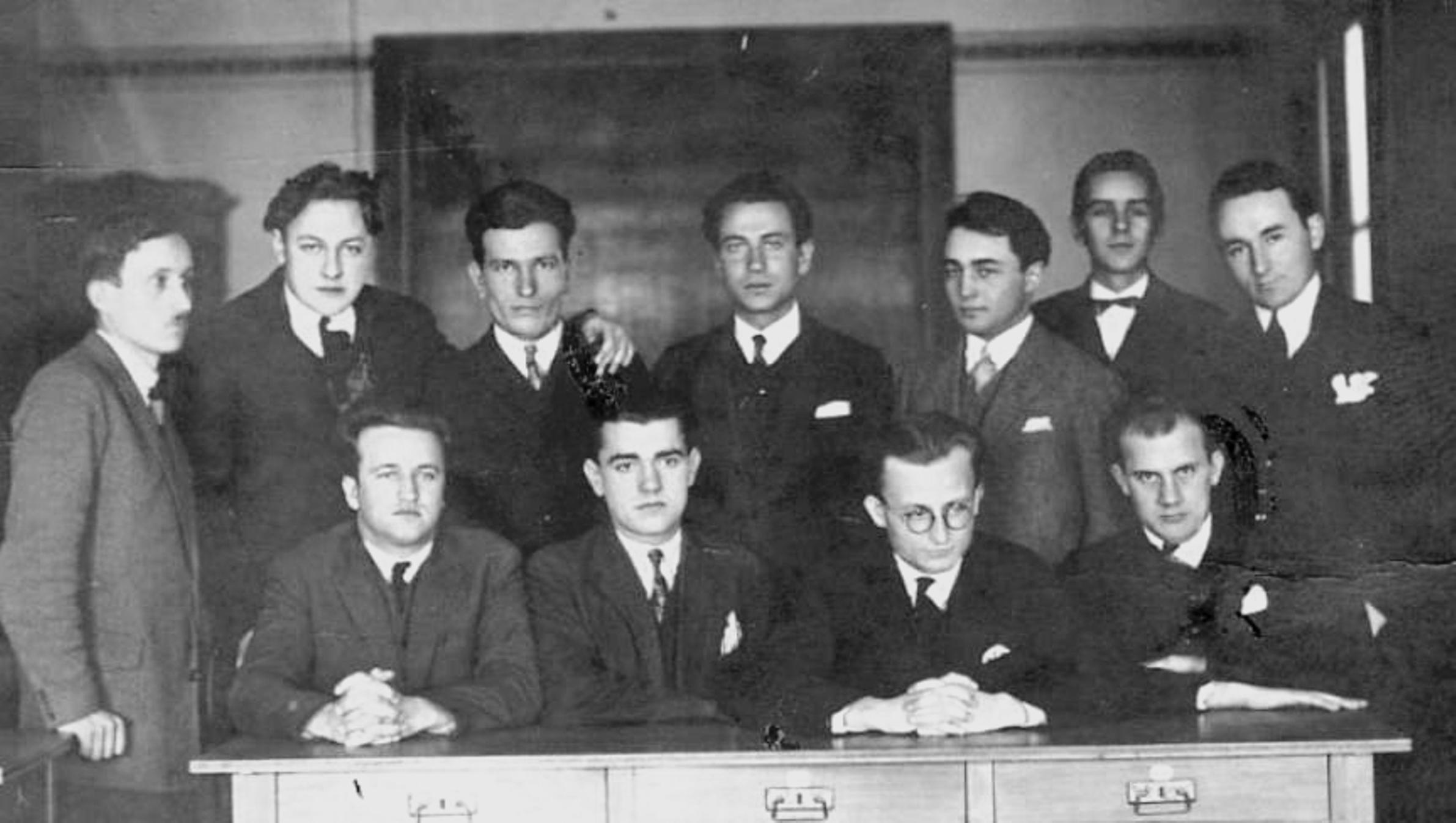 Philosophy students specializing in Psychology, at the University of Upper Dacia, Cluj, Romania (future Babeş-Bolyai University). This was the first all-Romanian class at that section, and includes some important figures in Romanian medicine, culture and politics.Sitting, left to right: A. Floca (schoolteacher); Dimitrie Todoran (educationist and advertising psychologist); Alexandru Roşca (psychology publisher); Ionel Pitariu (historian of psychology). Standing, left to right: Lucian Bologa (sociologist and educationist); Salvator Cupcea (psychiatrist, hygienist, eugenicist, Health Minister); I. Creangă (schoolteacher); Liviu Rusu (philosopher); unknown; Tudor Bugnariu (sociologist, communist politician); Nicolae Mărgineanu (psychologist, cultural activist).The image does not show another prominent graduate of the Cluj postgraduate school, i.e. communist poet Mihai Beniuc.